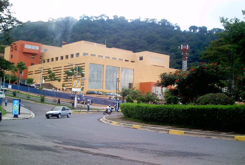 Administrative offices of TACA in San Salvador